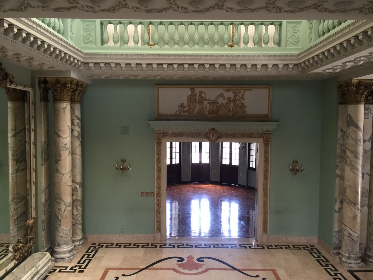 Fachada da lateral esquerda da Residência da Família Jafet, 730.